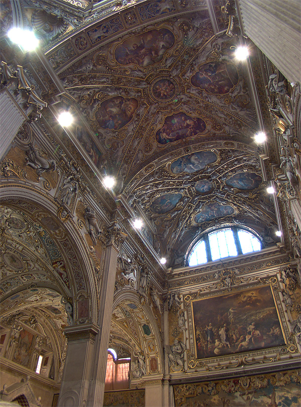 Basilica di Santa Maria Maggiore, Bergamo, Lombardy, Italy.